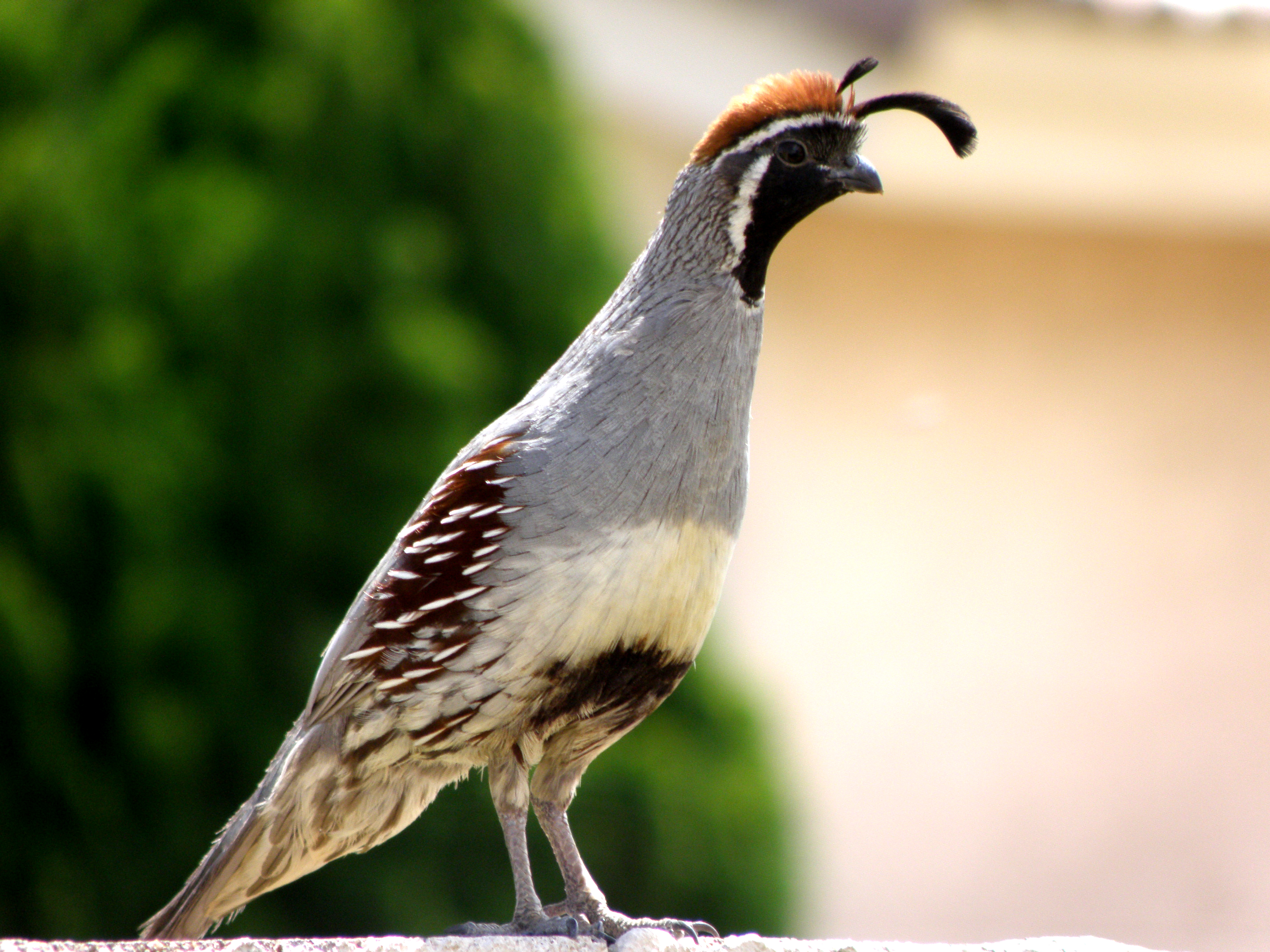 Male Gambel's Quail in Mesa, Arizona